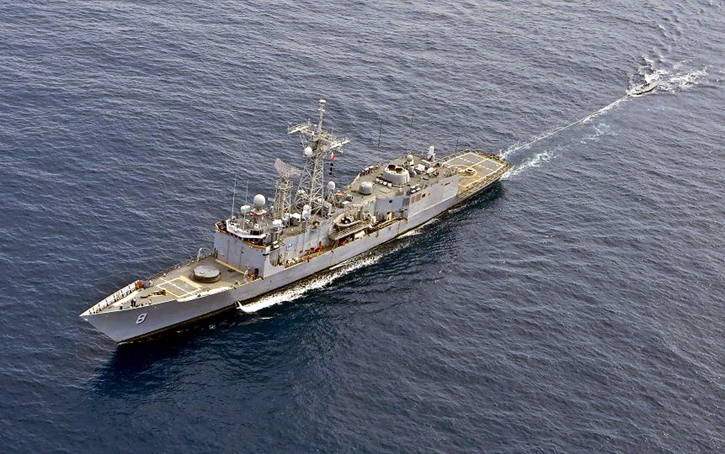 EASTERN PACIFIC OCEAN (Sept. 14, 2008) The guided-missile frigate USS McInerney (FFG 8) tows a self-propelled, semi-submersible craft seized Saturday, Sept. 13 by Coast Guard Law Enforcement Detachment 404. The Coast Guard law enforcement officers, embarked aboard the McInerney, seized seven tons of cocaine during a night raid about 350 miles west of Guatemala. U.S. Navy photo by Lt. Justin Cooper (Released)